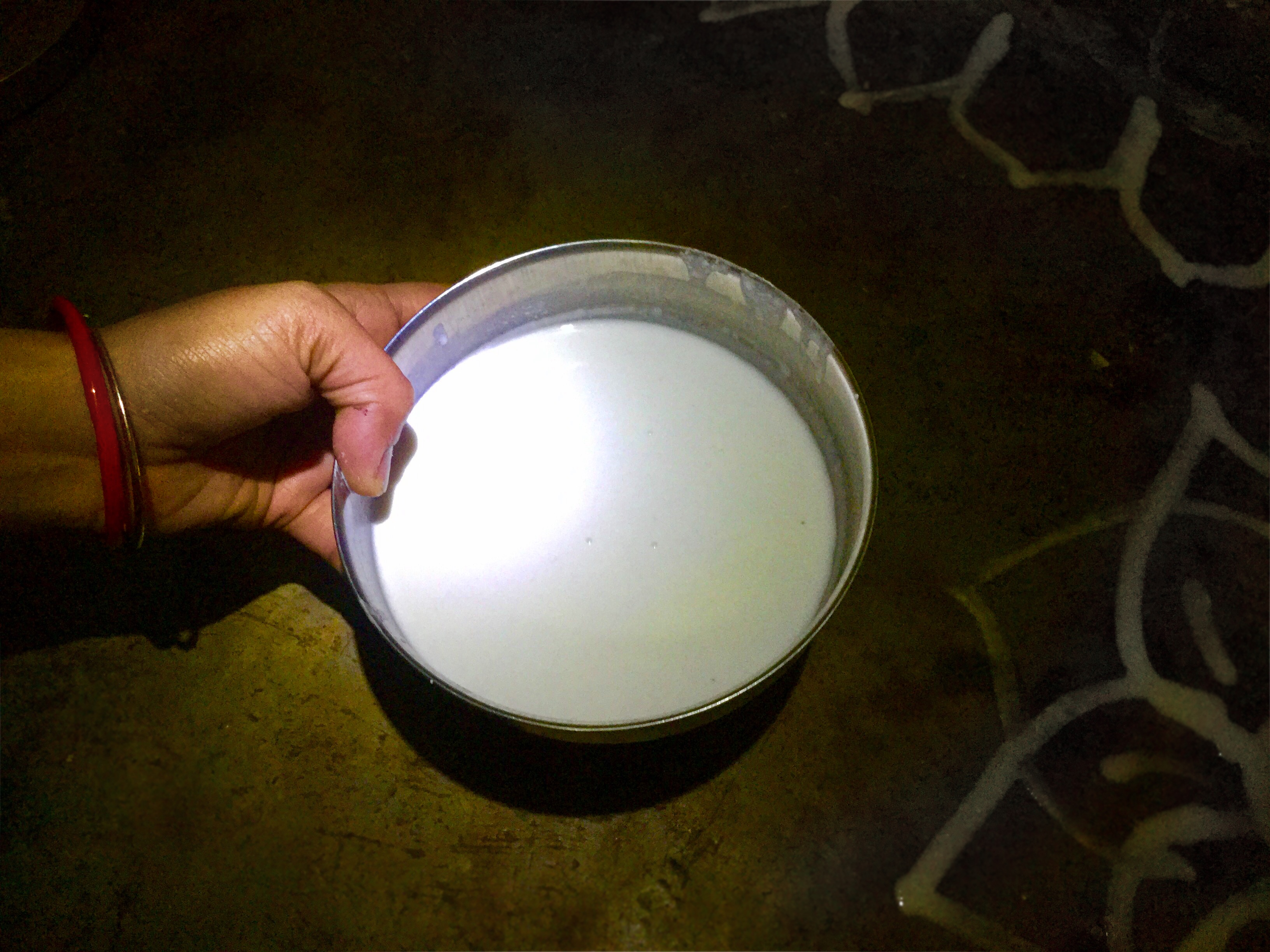 Preparations for Lakshmi Puja in an Odia household. ଓଡ଼ିଆ: ମାଣବସା ଗୁରୁବାର ପାଇଁ ପ୍ରସ୍ତୁତି ।